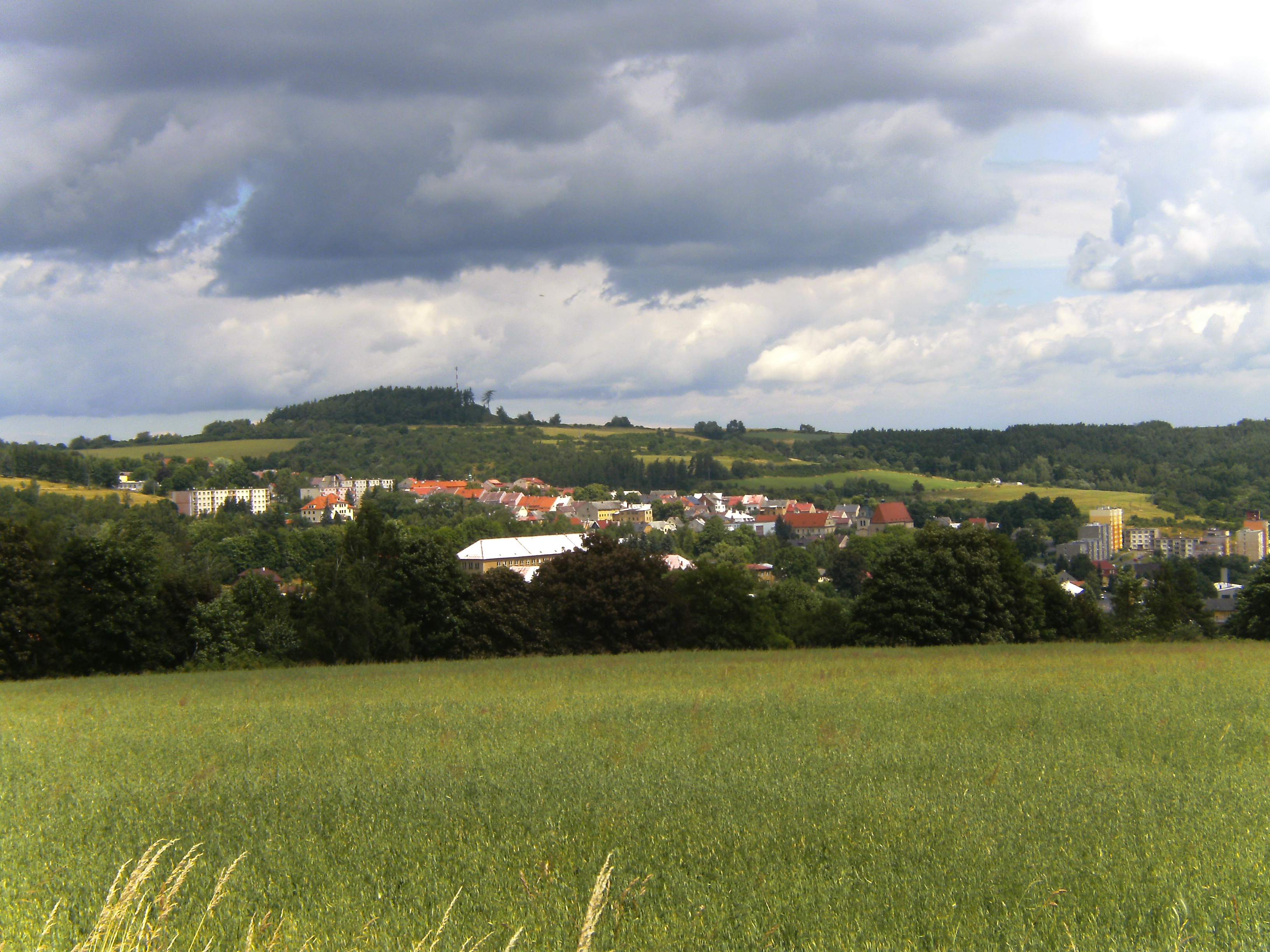 Žlutice